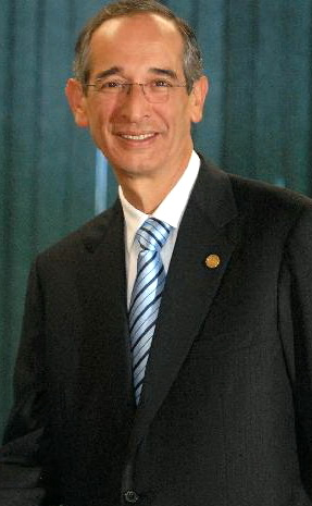 The presidents of Brazil, Luiz Inácio Lula da Silva, and Guatemala, Álvaro Colom Caballeros, discuss today (4) about cooperation in some areas during a meeting at Planalto Palace.